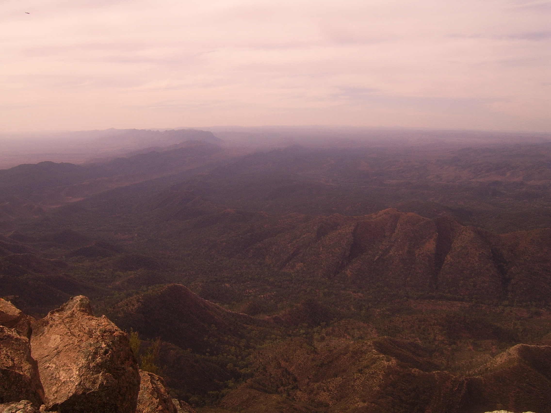 Wilpena Pound in South Australia, view from St. Mary's Peak (1170m)